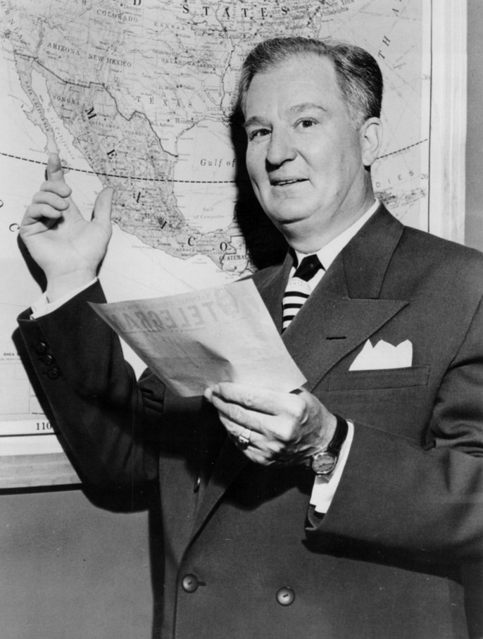 Photo of Everett Mitchell, host of the NBC Radio network program National Farm and Home Hour.